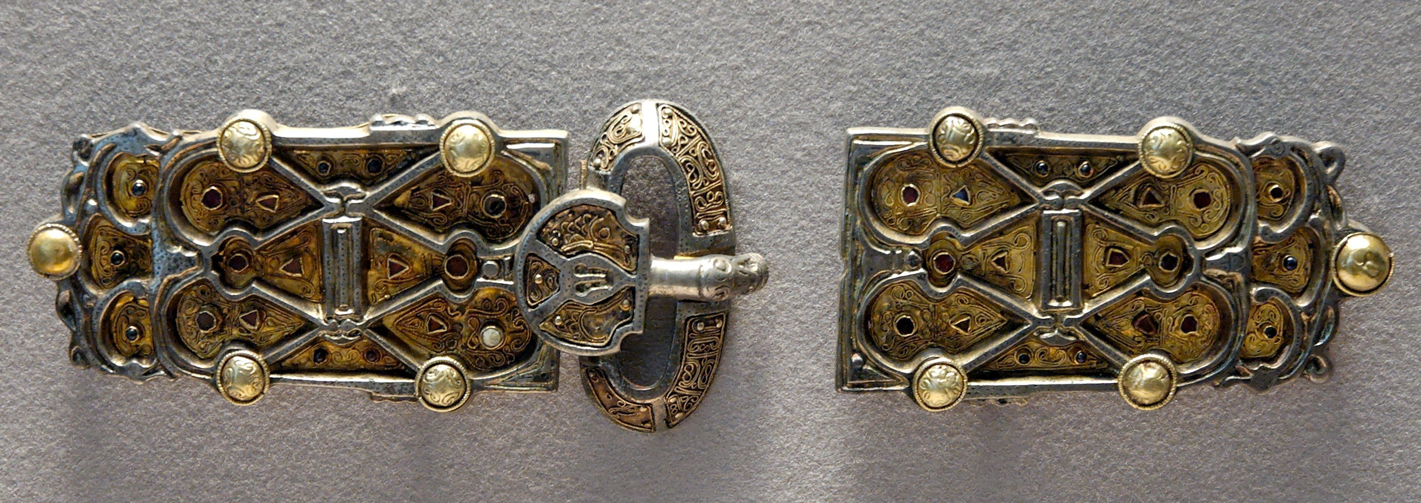 Belt plaques from the finery set of Queen Aregund (ca. 515–573), wife of Clotaire I (511–561), king of the Franks. Merovingian Gaul.